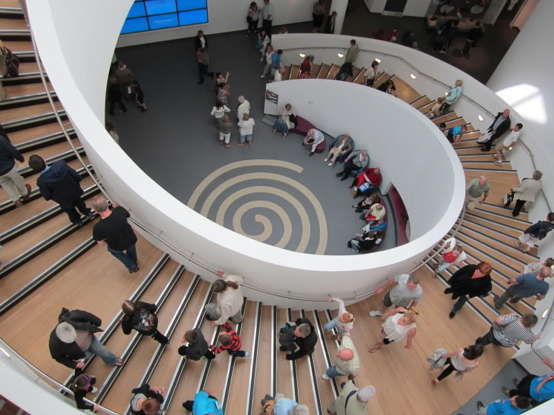 The spiral staircase inside the Museum of Liverpool, England.